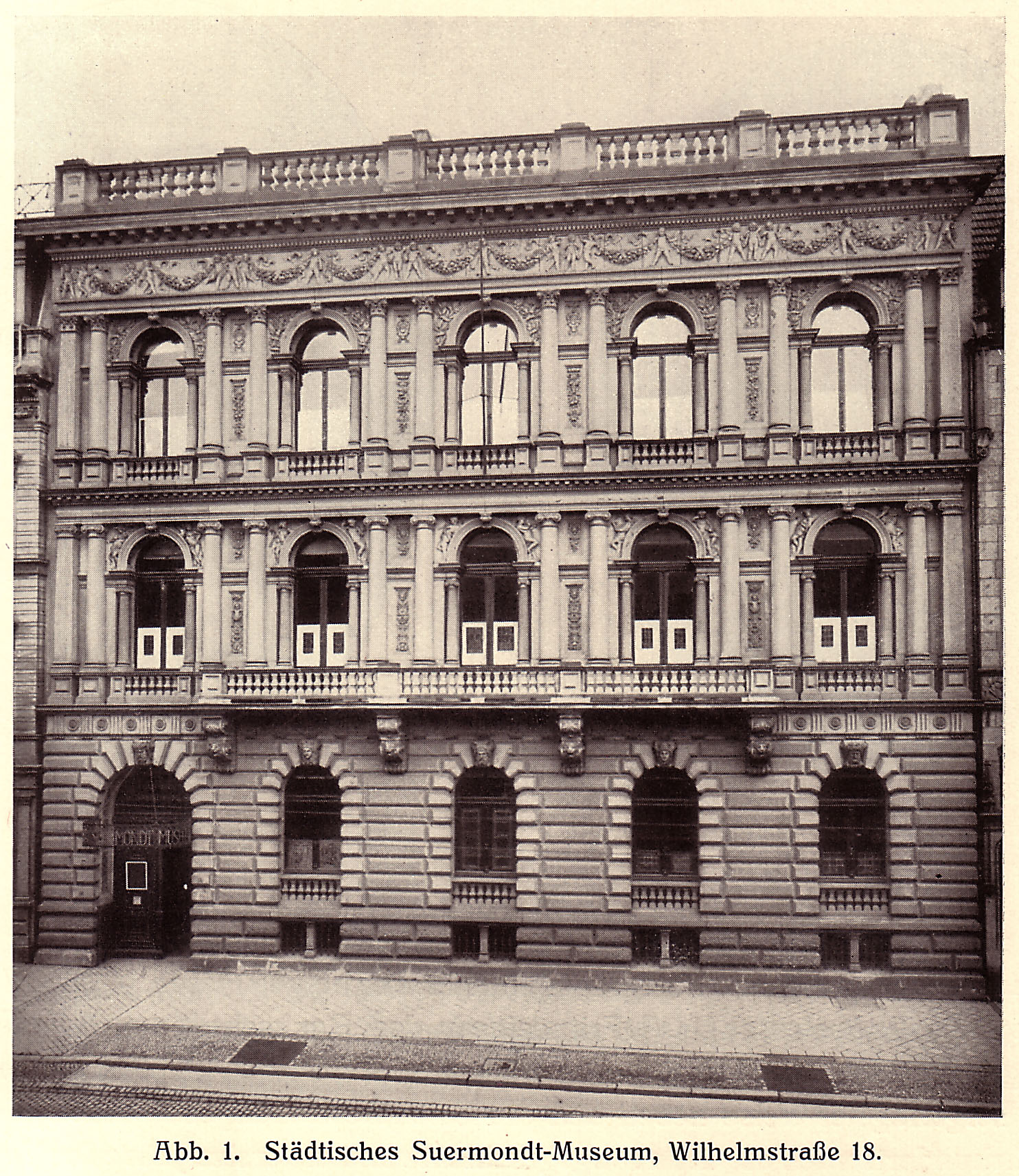 New Suermondt-Museum in Aachen (Wilhelmstraße 18) arround 1901